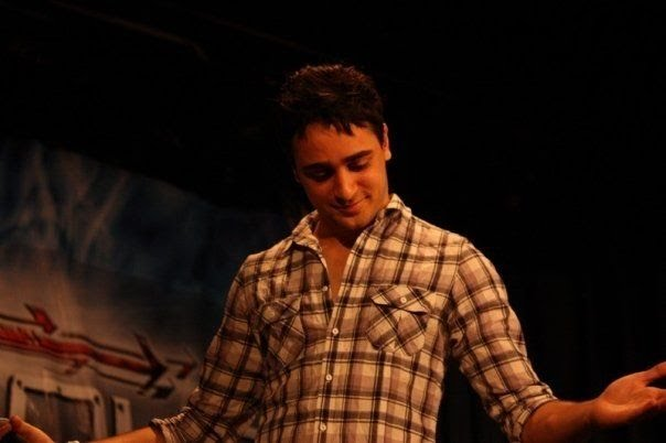 Imran Khan at Jai Hind College Festival